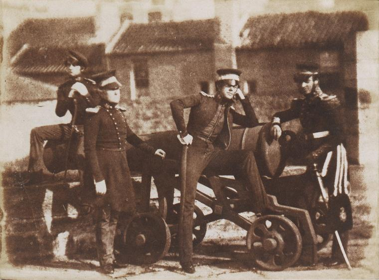 Major Crawford, Major Wright, Capt. St. George, and Capt. Bortingham of the Leith Fort Artillery by David Octavius Hill (1802–70)